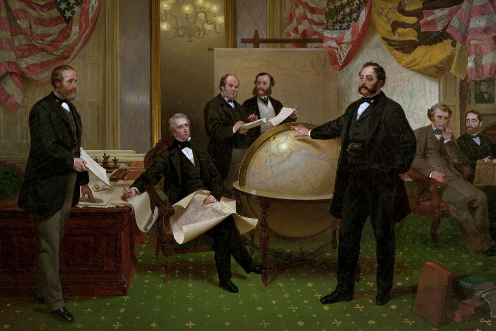 Signing the Alaska Treaty of Cessation, L. to R. Robert S. Chew, Secretary of State (USA) William H. Seward, William Hunter, Mr. Bodisco, Russian Ambassador Baron de Stoeckl, Charles Sumner, Fredrick W. Seward, William H. Seward House, Auburn, New York